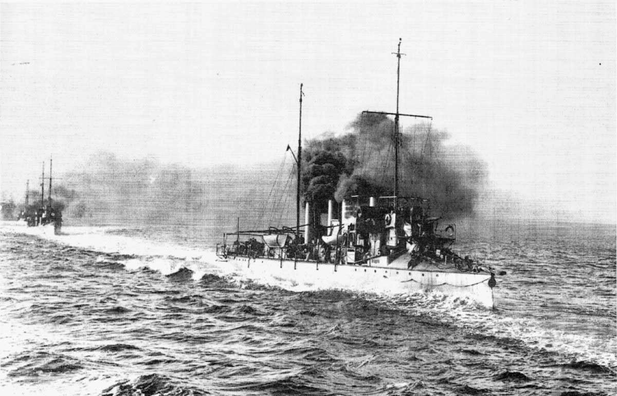 Imperial Russian destroyer Zavidnyy.